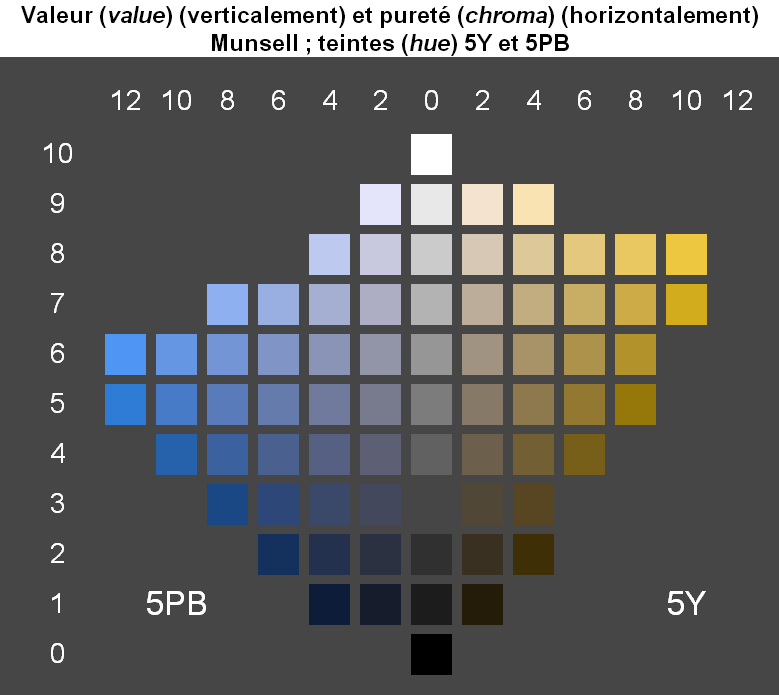 Munsell value (vertical) and chroma (horizontal); hue 5Y and 5PB